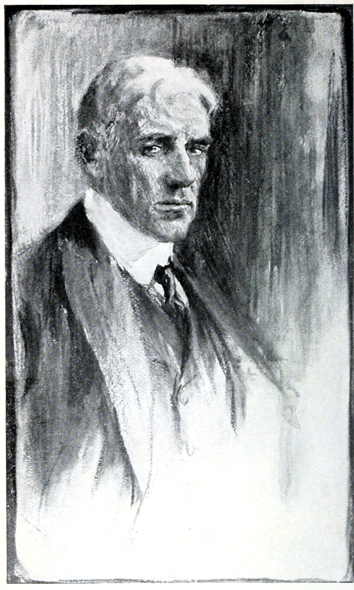 Images from the book, The Amateur Cracksman, written by E. W. Hornung and illustrated by F. C. Yohn